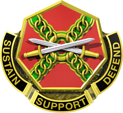 This is an official U.S. Army Installation Management Command distinctive unit insignia created by the United States Army Institute of Heraldry.